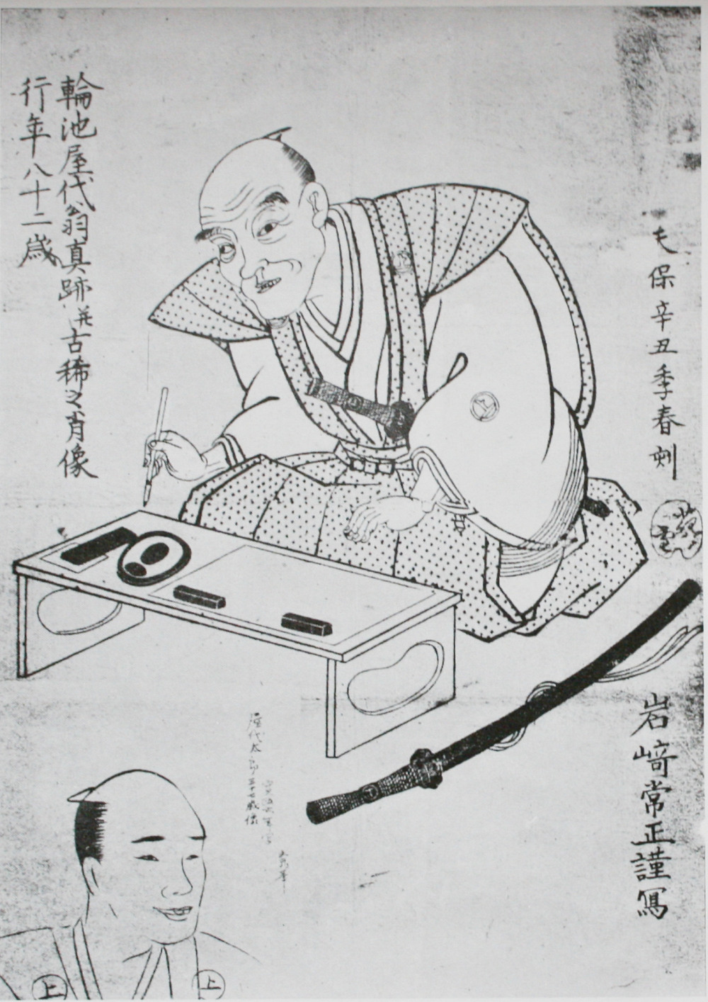 Two Portraits of Yashiro Hirokata (1758- 1841 March 10th), Scholar, 32 years old and 83 years old